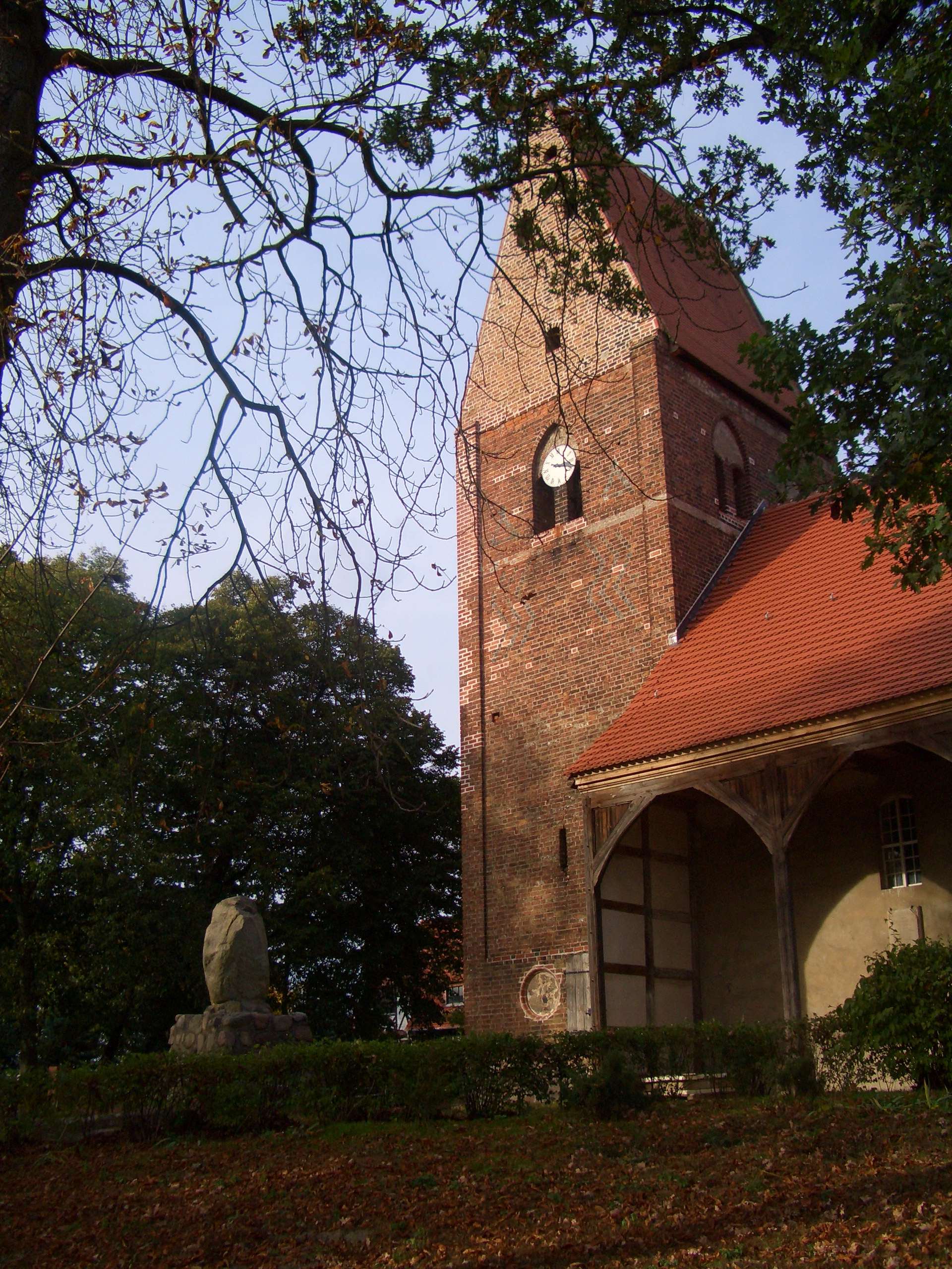 Kirche von Pessin, Church of Pessin(Germany)